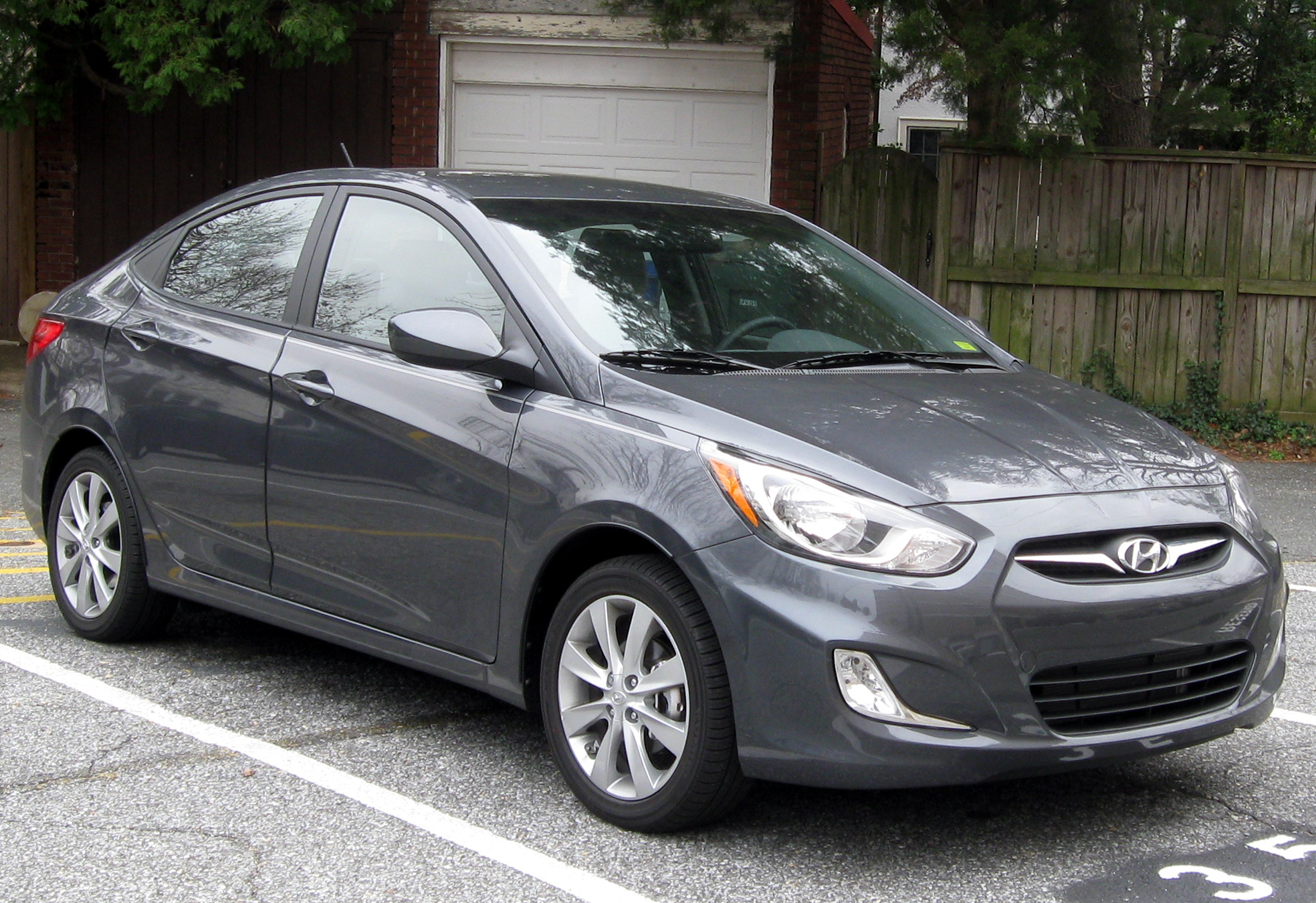 2012 Hyundai Accent photographed in Washington, D.C., USA.